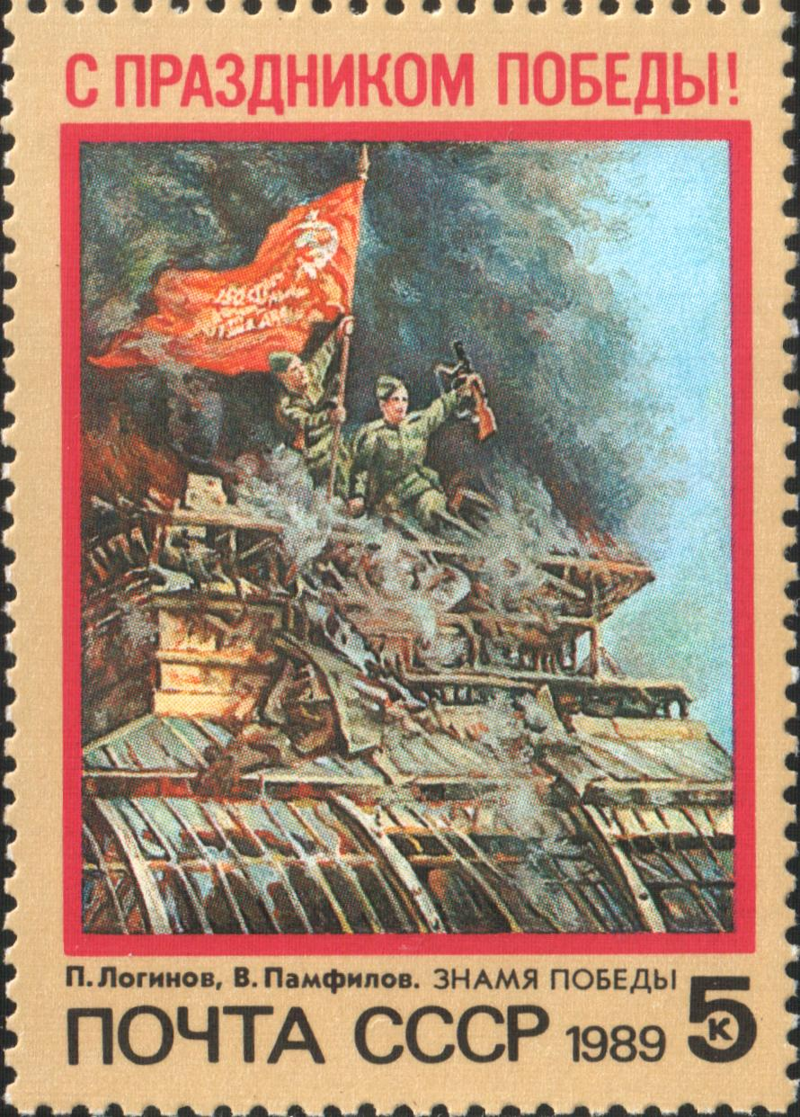 USSR stamp